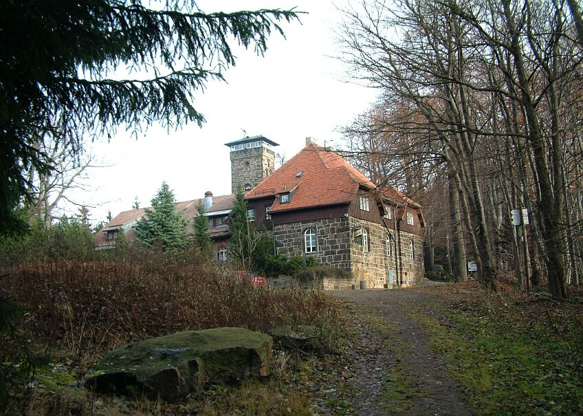 Czorneboh, Saxony, Germany